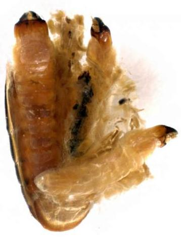 These are three larvae inside an abdomen of the Borneostyrax cristatusgen. et sp. nov. female.